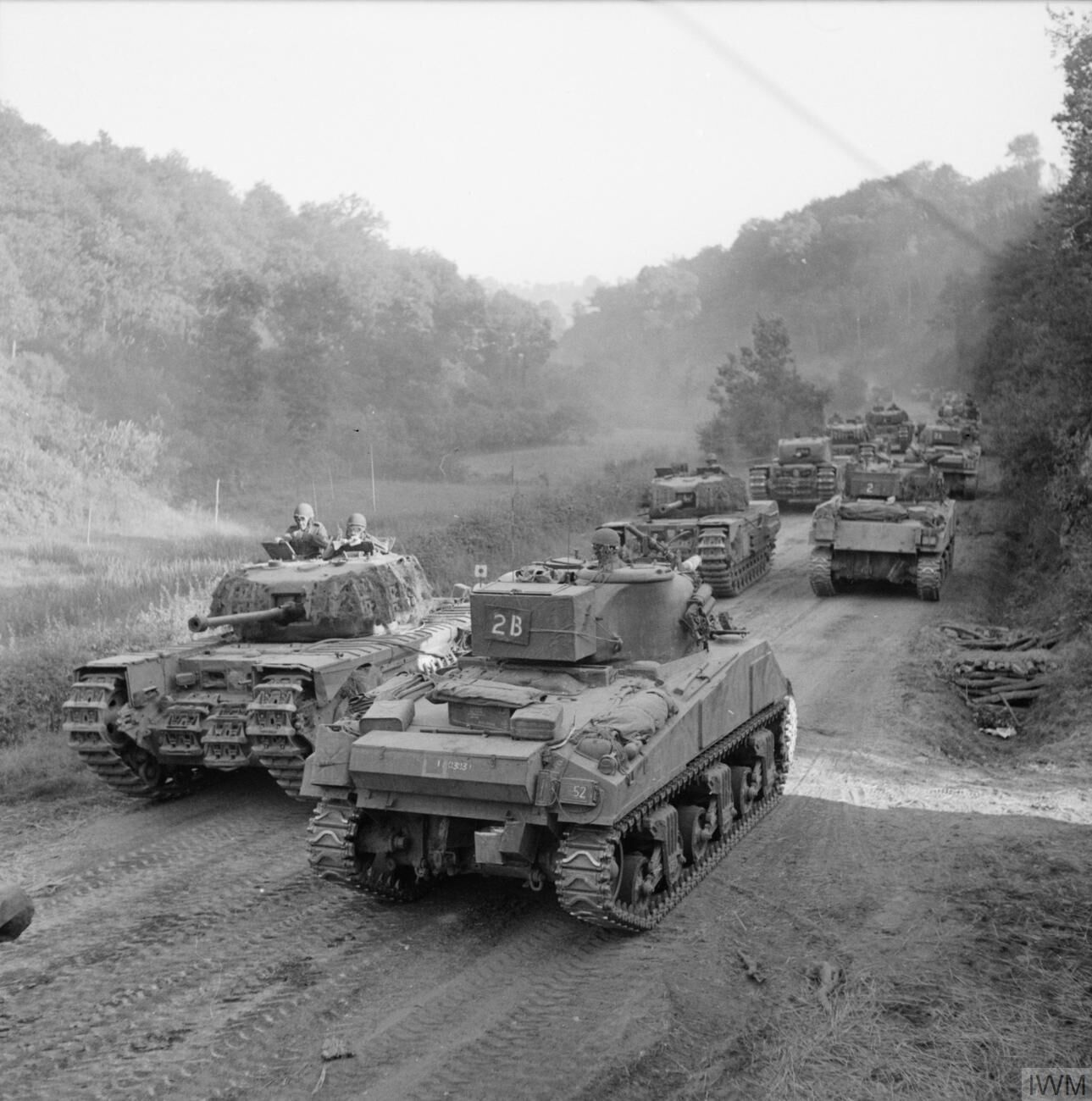 The British Army in the Normandy Campaign 1944 Sherman tanks pass a column of Churchills as they advance towards Vassy, 4 August 1944.